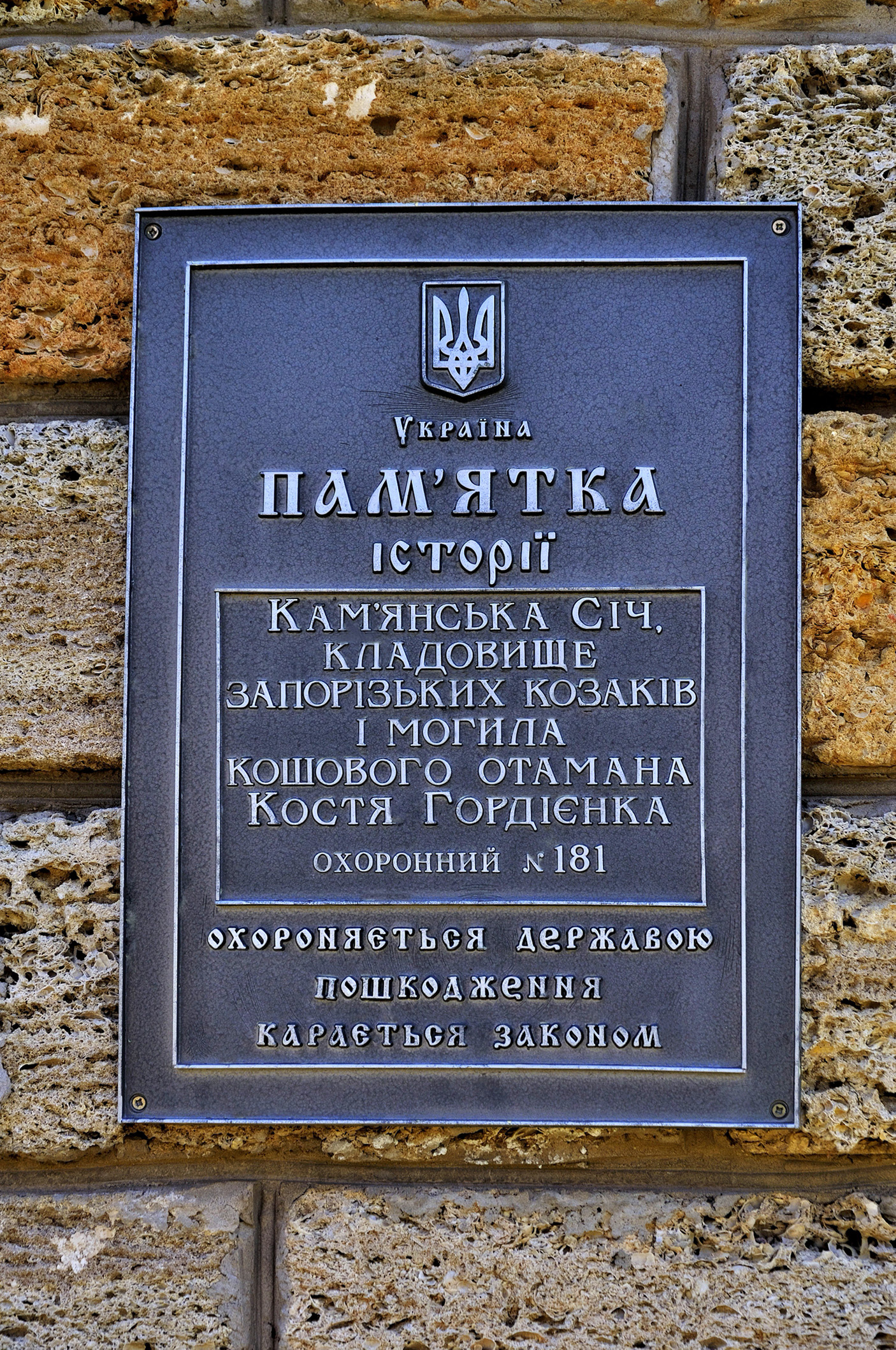 The territory of the former Kamianska Sich.